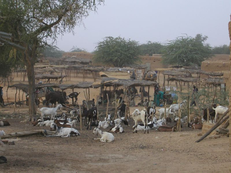 There were a lot of animals at Inates. Especially sheep and goats. Many will be sacrificed for the Tabaski celebration near the end of the year.